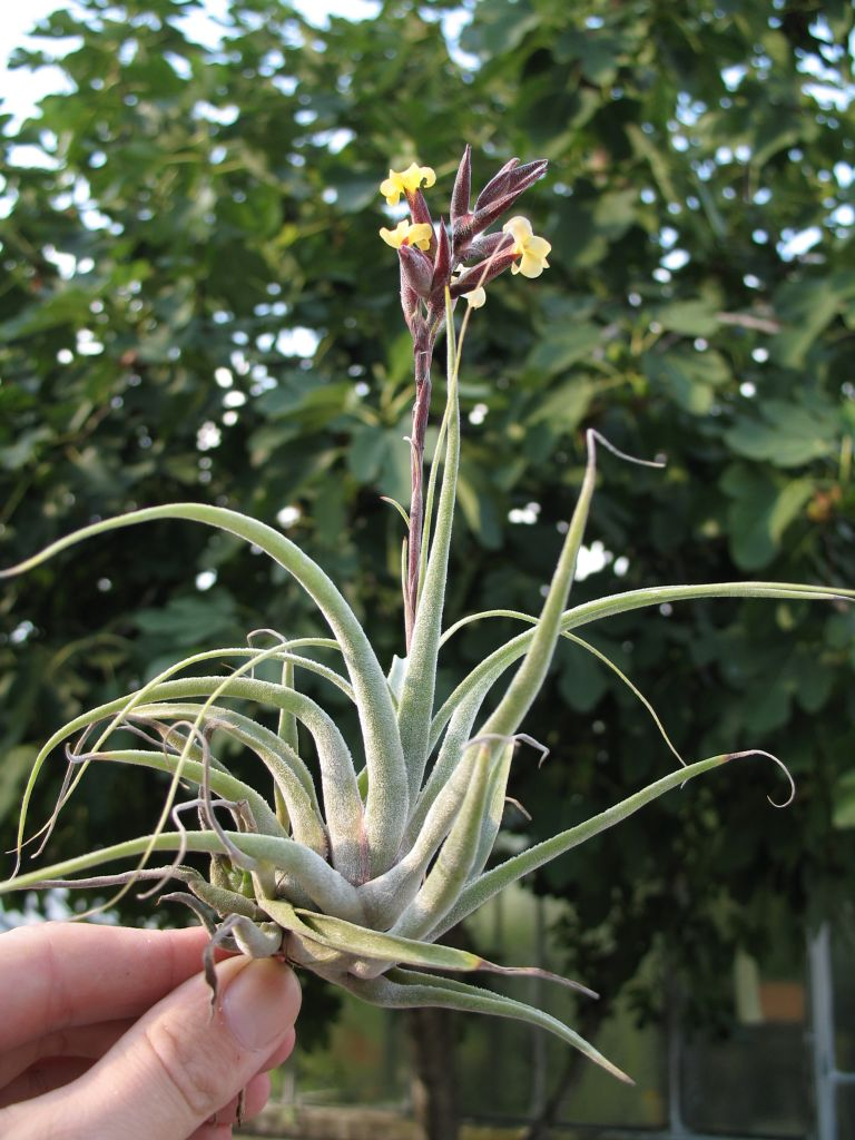 Tillandsia humilis in cultivation at the Botanical Garden of Heidelberg, Germany.